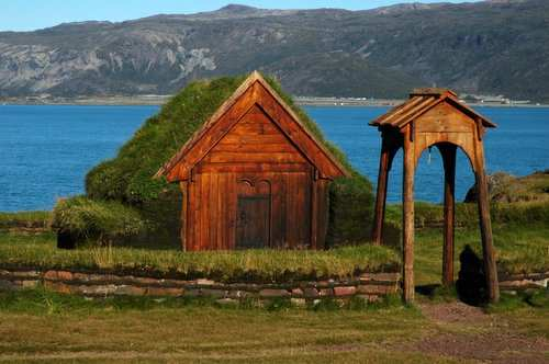 Brattahlíð – 21st-century reproduction of Thjodhild's church, with Eriksfjord in the background.